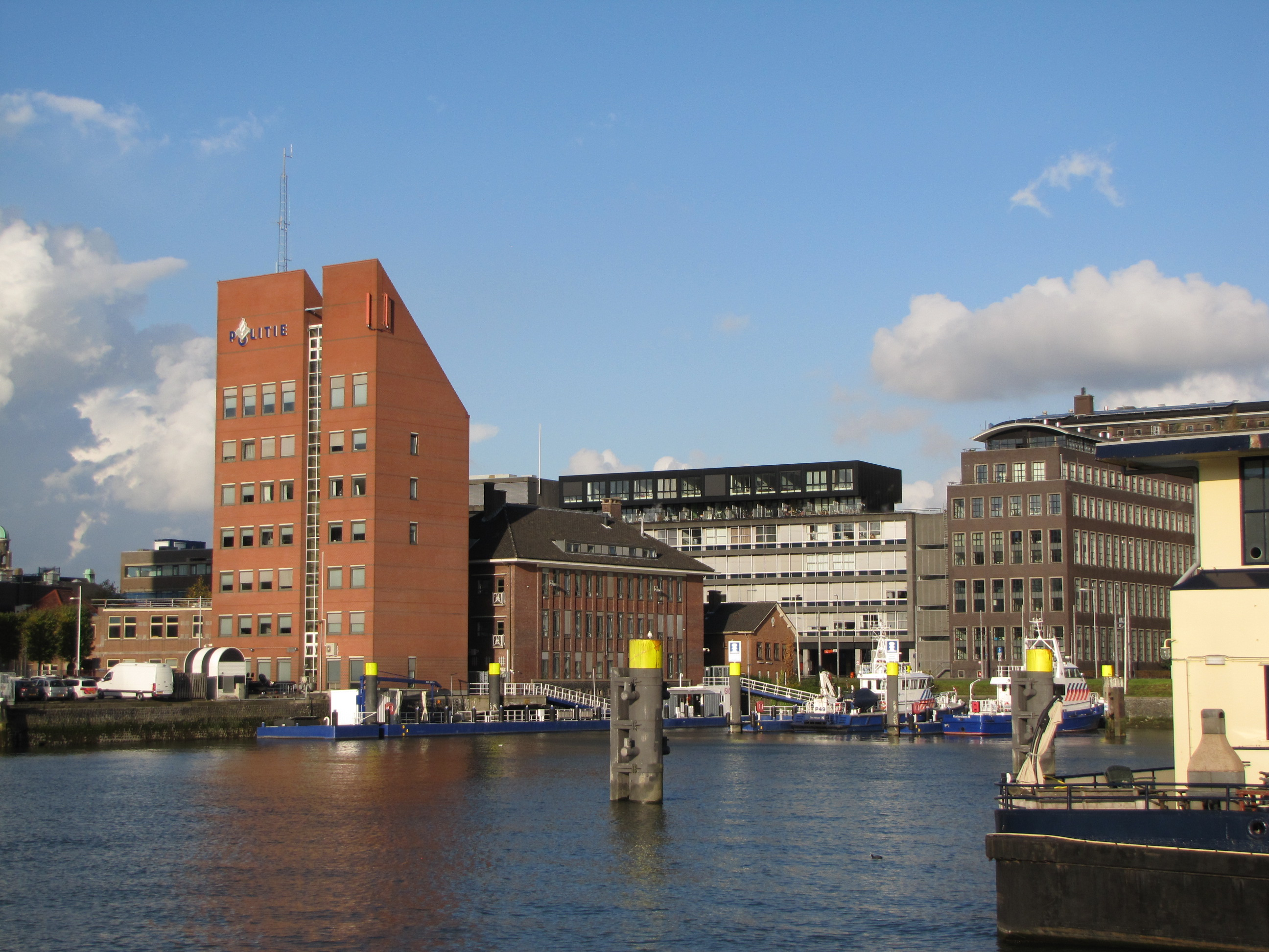 Pictures of Rotterdam on the 5th november 2017.